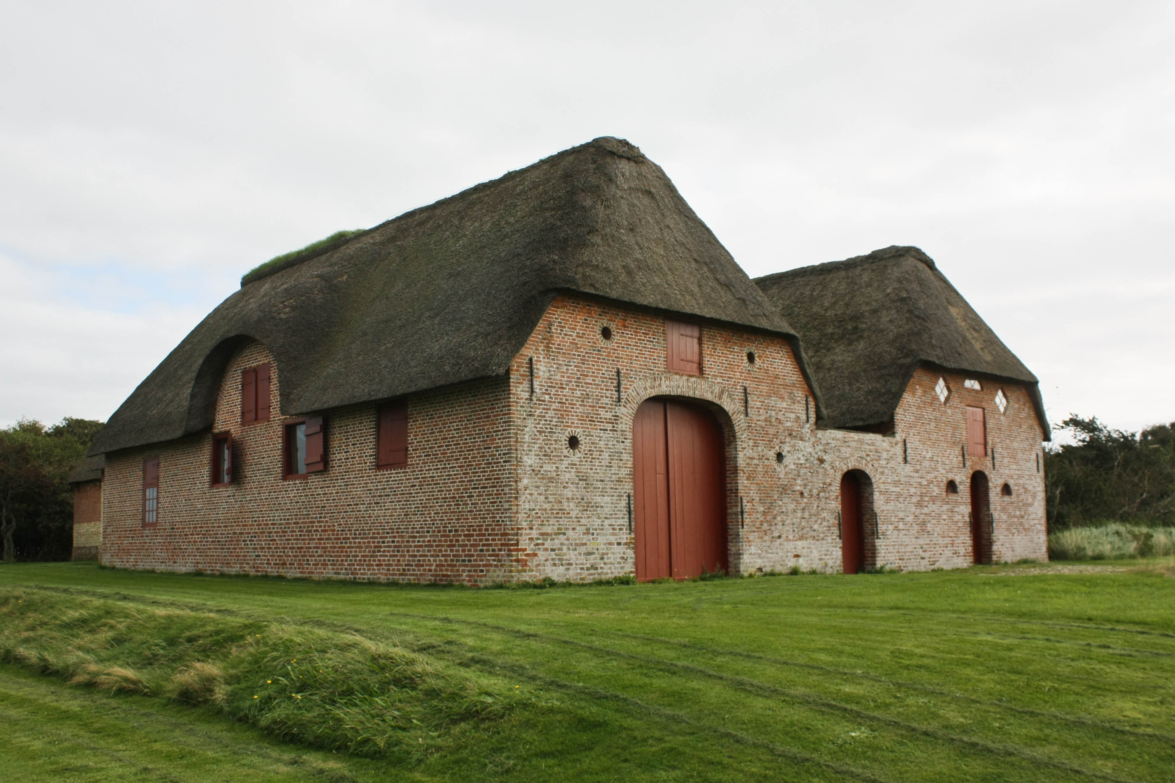 Kommandørgården (Farm) on Rømø, Denmark). The house is from 1770 and the barn and stable is from 1744. "Kommandør" (commander) is an older term for a captain of a Whaler.